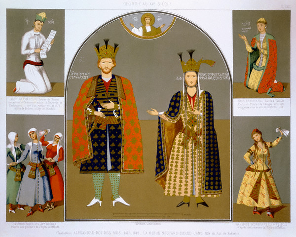 Chromolithograph Depicting Georgian King Alexander I and Queen Nastane-Dared Jane with Other Royal Figures by Armand Theophile Cassagne